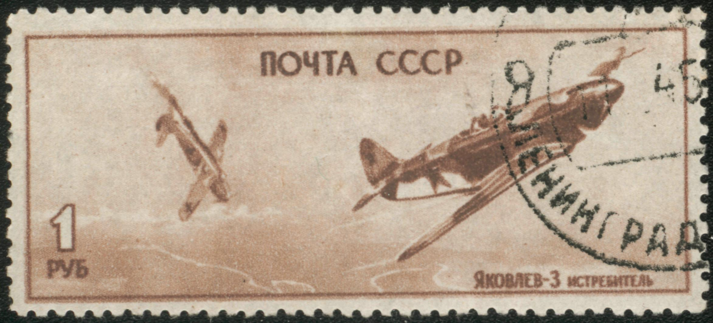 USSR stamp, Yakovlev Yak-3 fighter aircraft, 1945, CPA #994, 1 ruble, used.